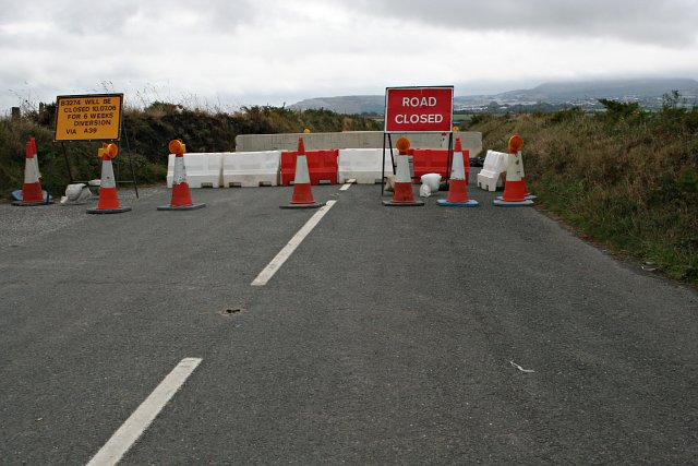 Road Closed. This is over a mile away from the reason for the closure which is the building of a new stretch of the A30 road.